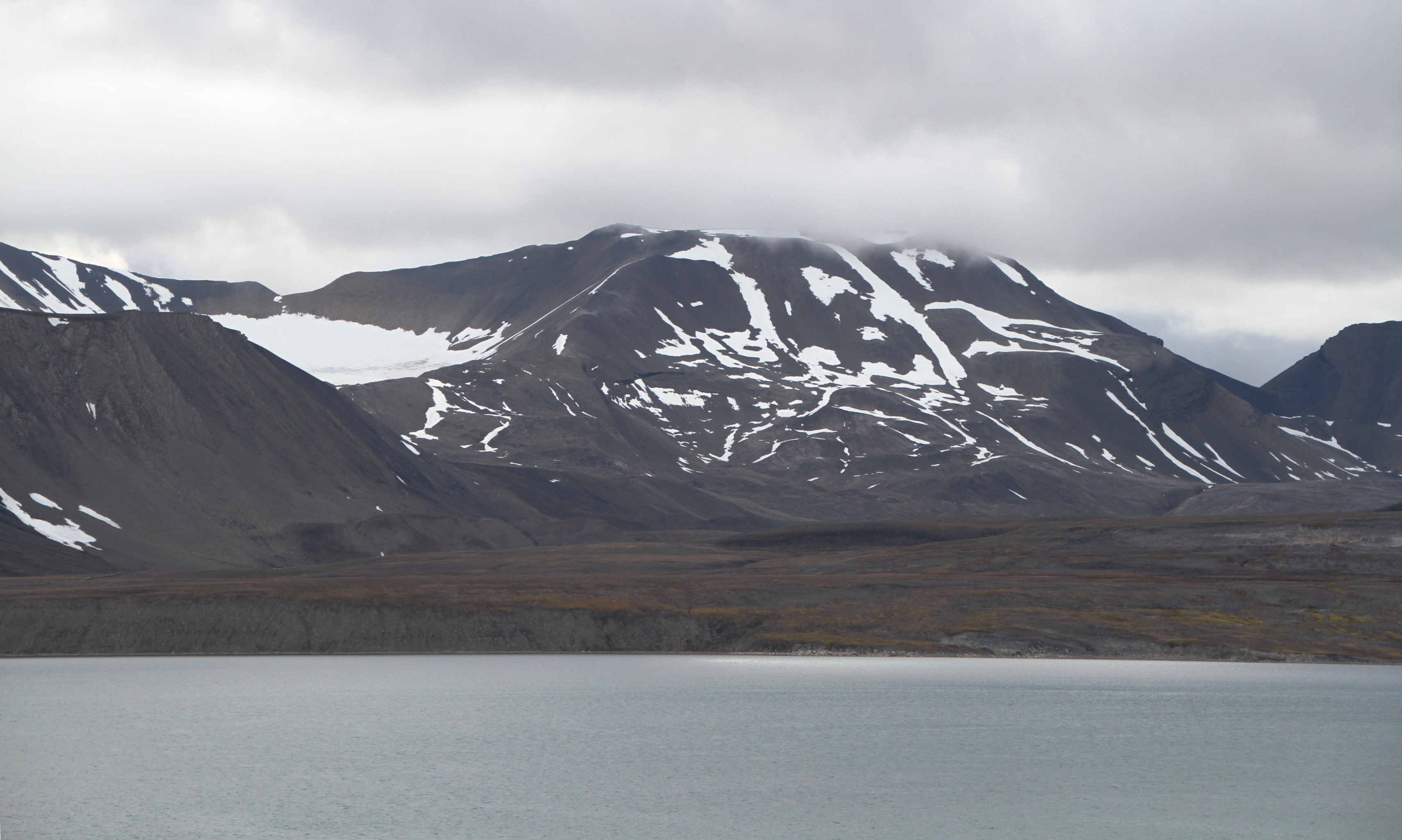 Image from the Green Harbour (Grønfjorden) in western Spitsbergen - seen from the settlement of Barentsburg in the east towards west. The image shows the mountainous areas on the western side of the fjord.